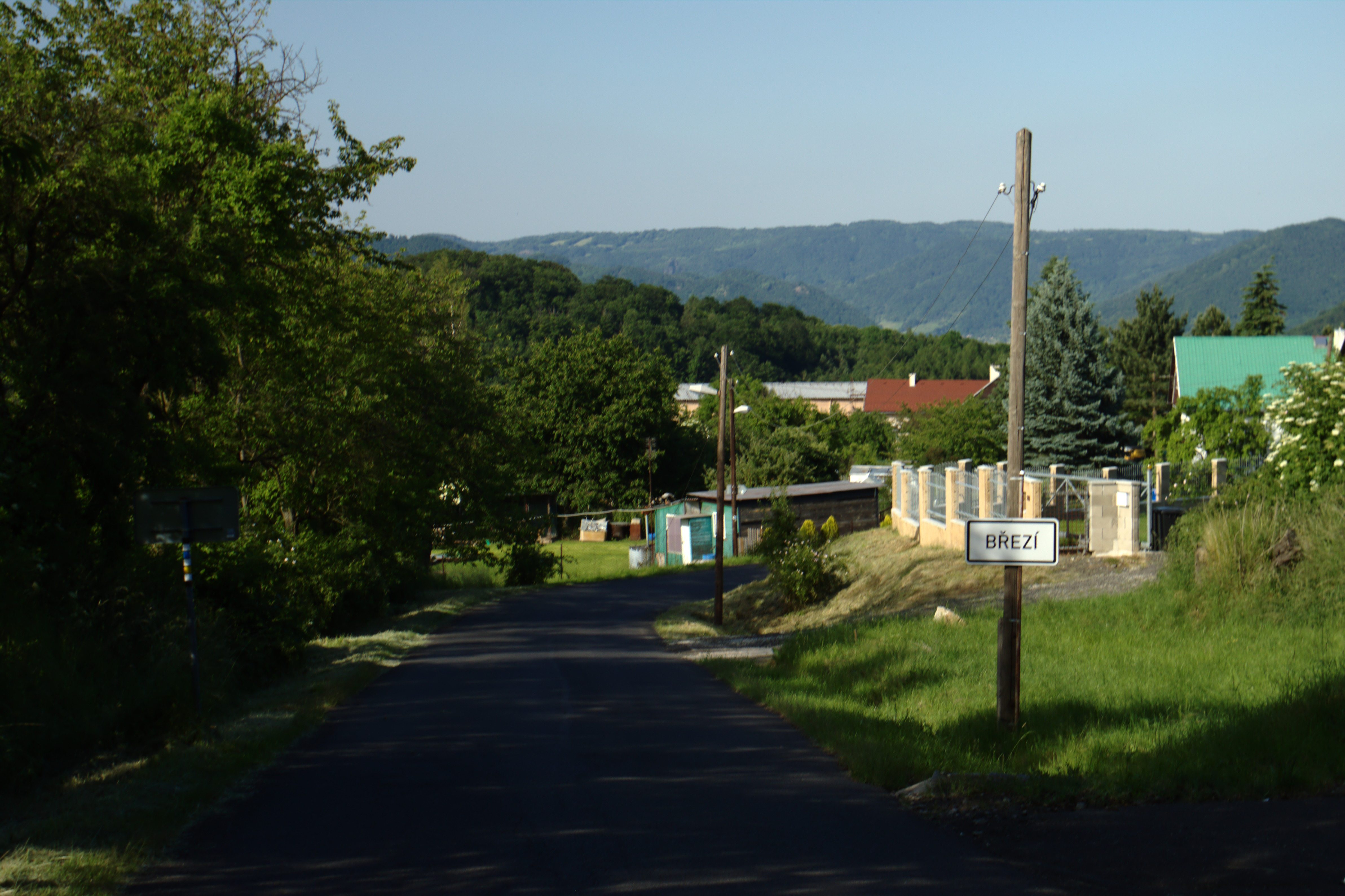 A road to the village of Březí, Ústí Region, CZ